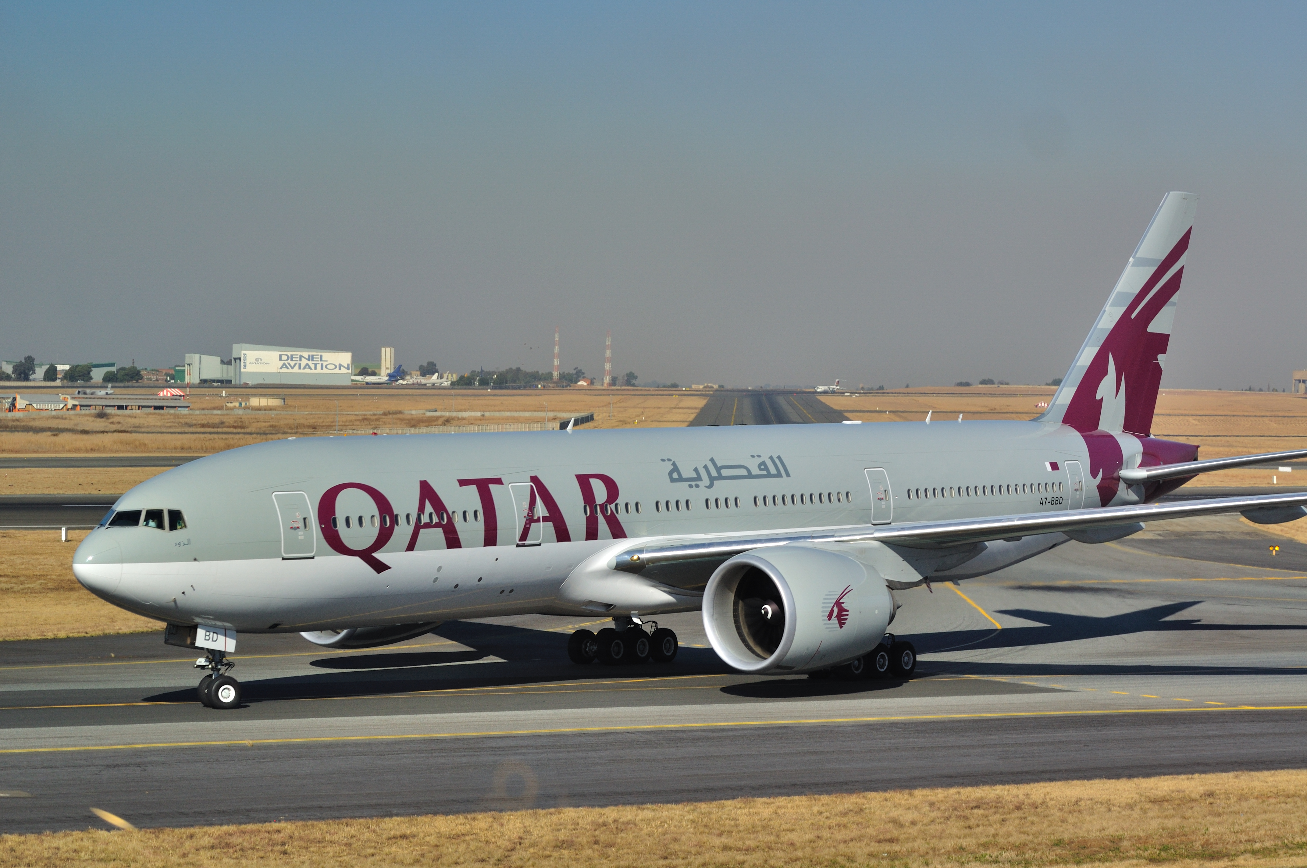 South Africa, spotting at OR Tambo International Airport